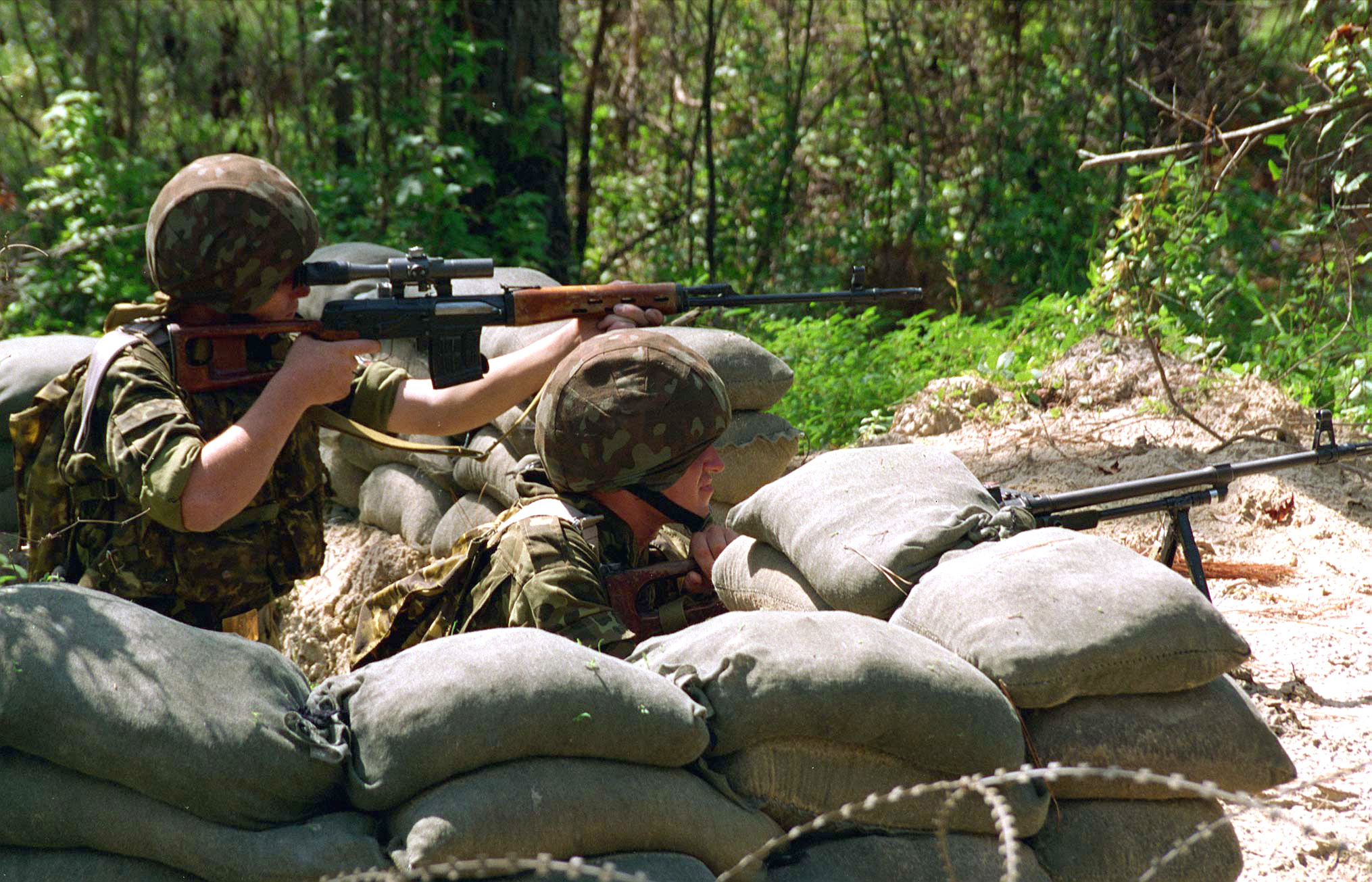 Troops from Company 5, armed with a Dragunov sniper rifle equipped with a PSO-1 telescopic sight, practice Check Point Operations/Weapons Disarmament learned during Situational Training Exercise - 5 (STX-5).